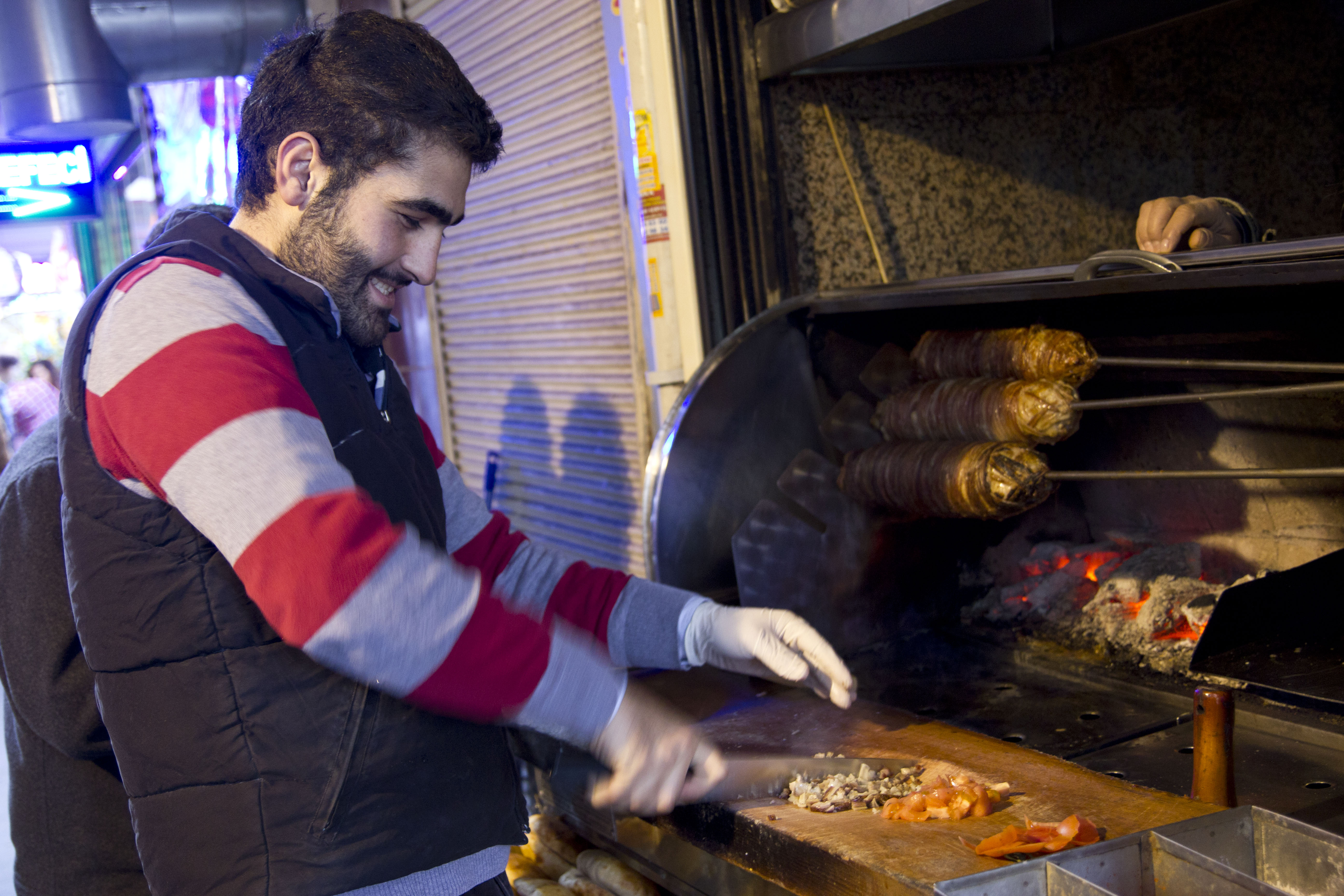 Kokoreç are chopped, grilled or roasted lamb intestines.